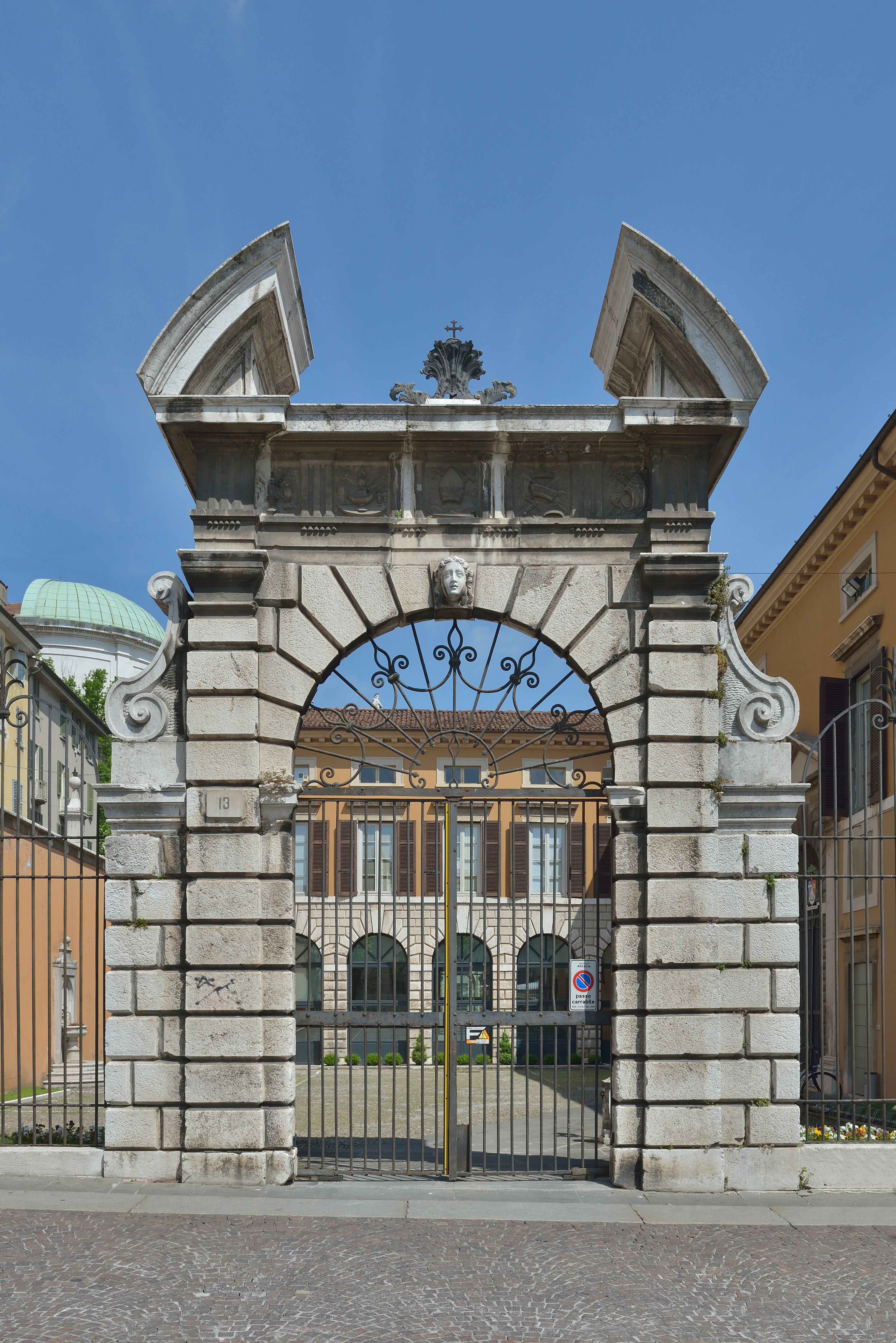 Gate on "Piazza Vescovado" in Brescia Italy